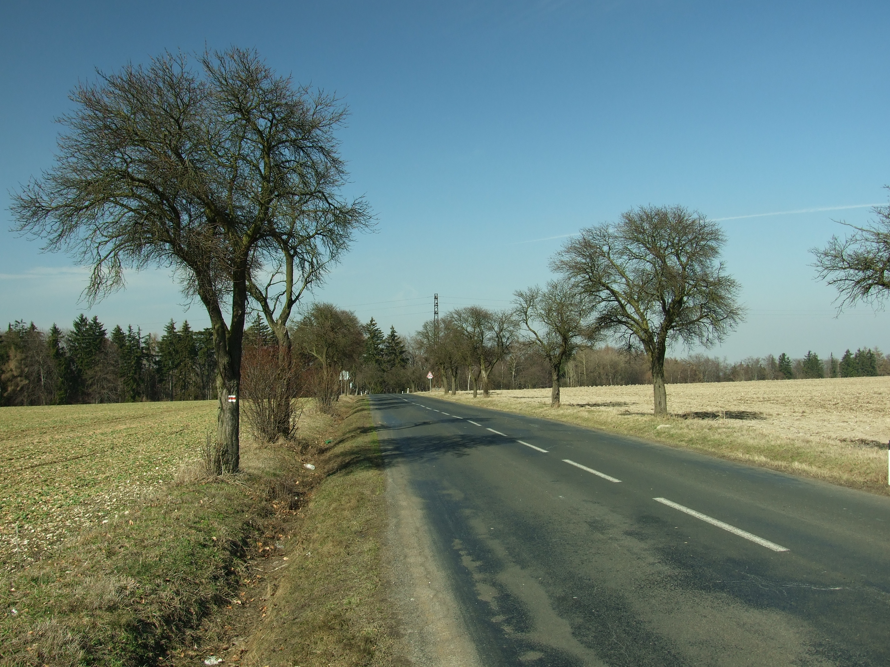 A road to Třeboc village, Rakovník District. Central Bohemian Region, CZ